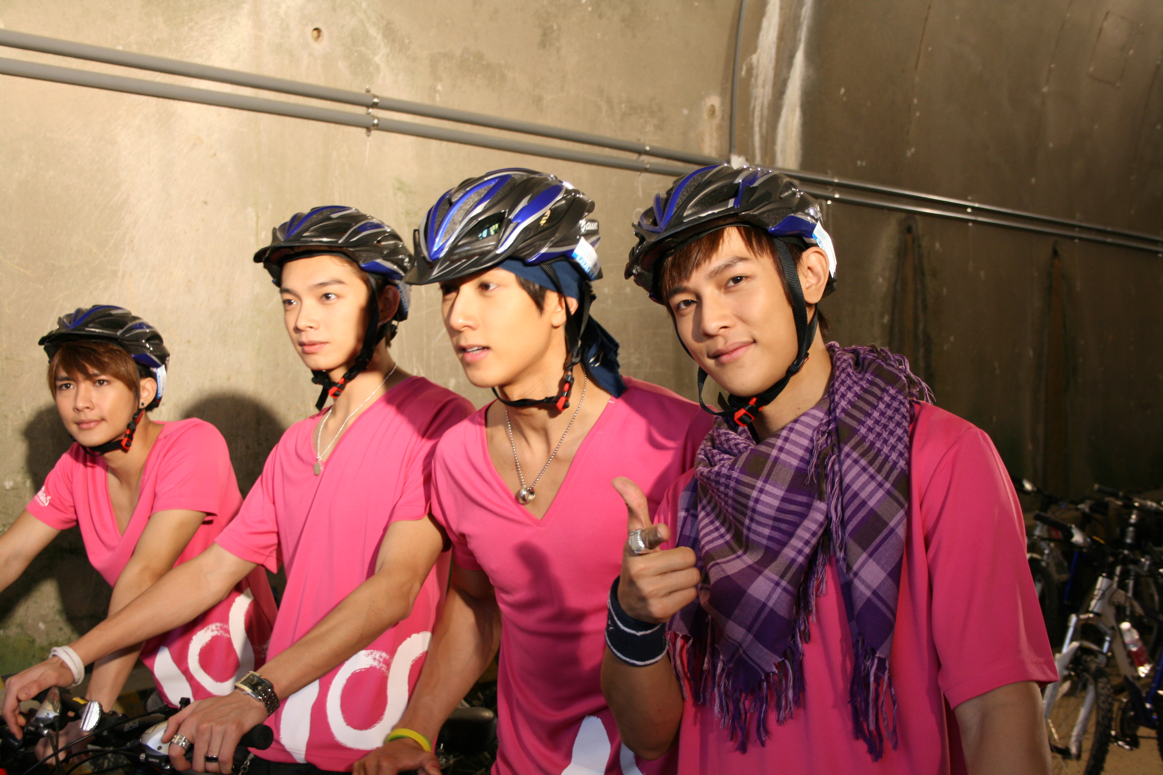 Fahrenheit at the Let's Bike Taiwan 2009.